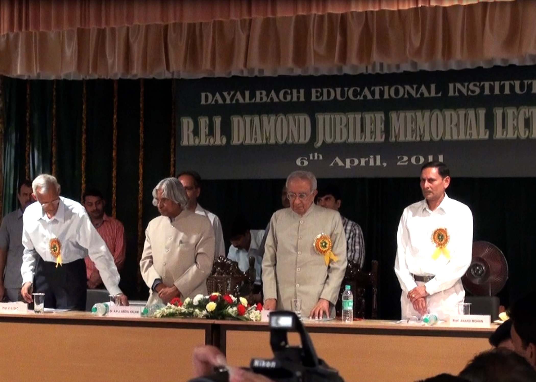 The picture was received from the office of Registrar of DEI, Agra, Prof. Anand Mohan towards the use on his Wikipedia article.